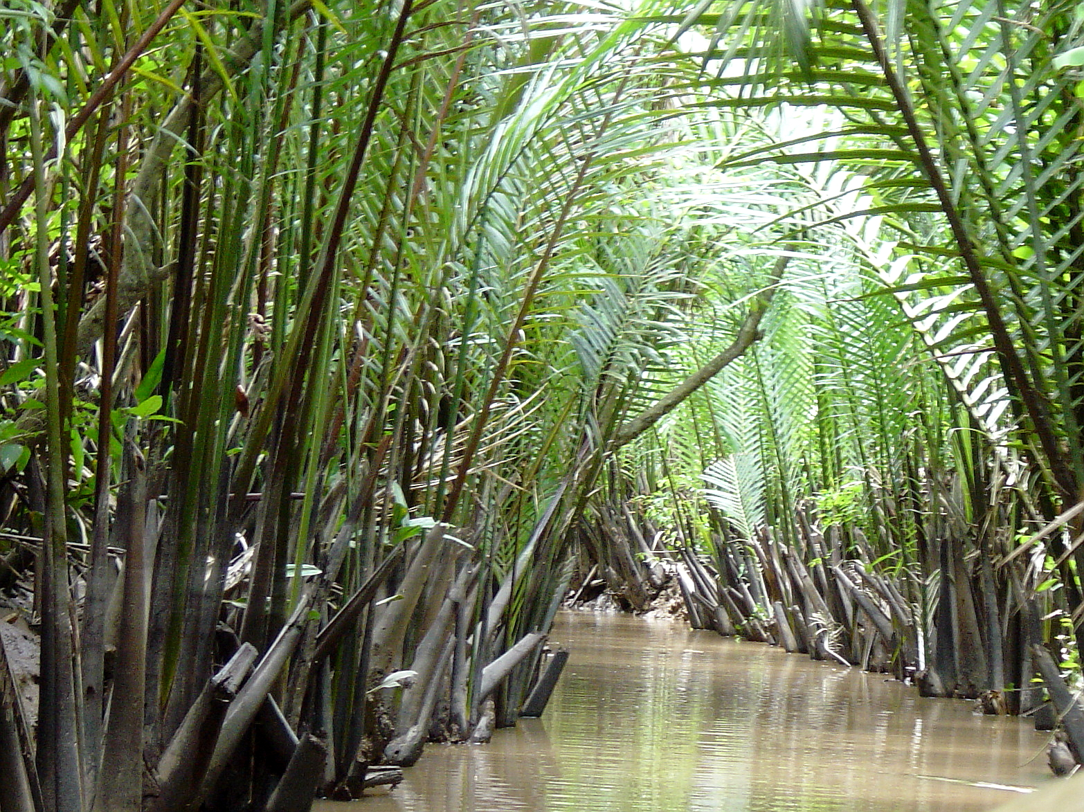 Nypa fruticans from a river in Vietnam